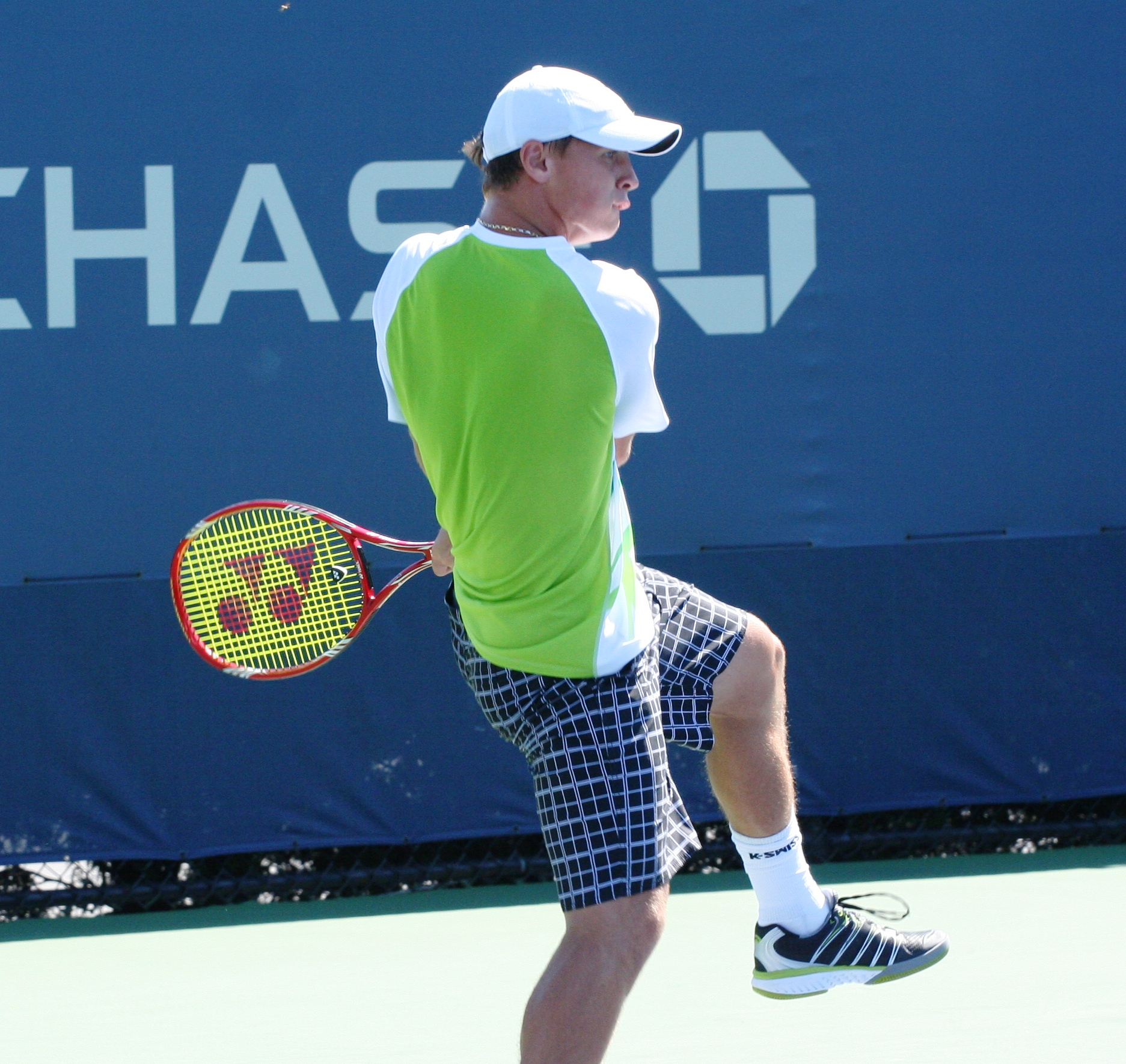 U.S. Open Monday, Aug. 30, 2010